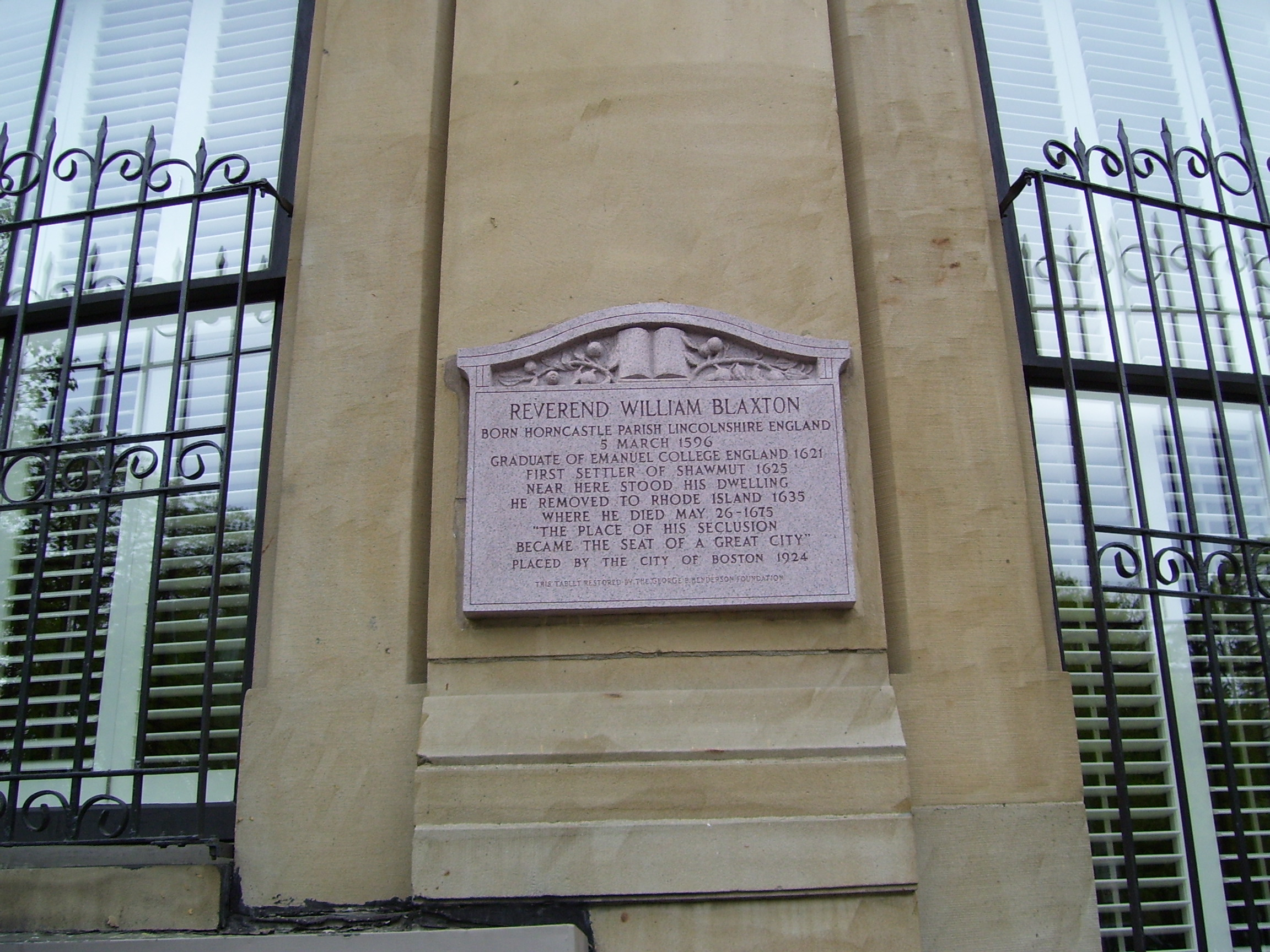 My 2008 photo of the William Blaxton plaque on Beacon Street in Boston, MA.